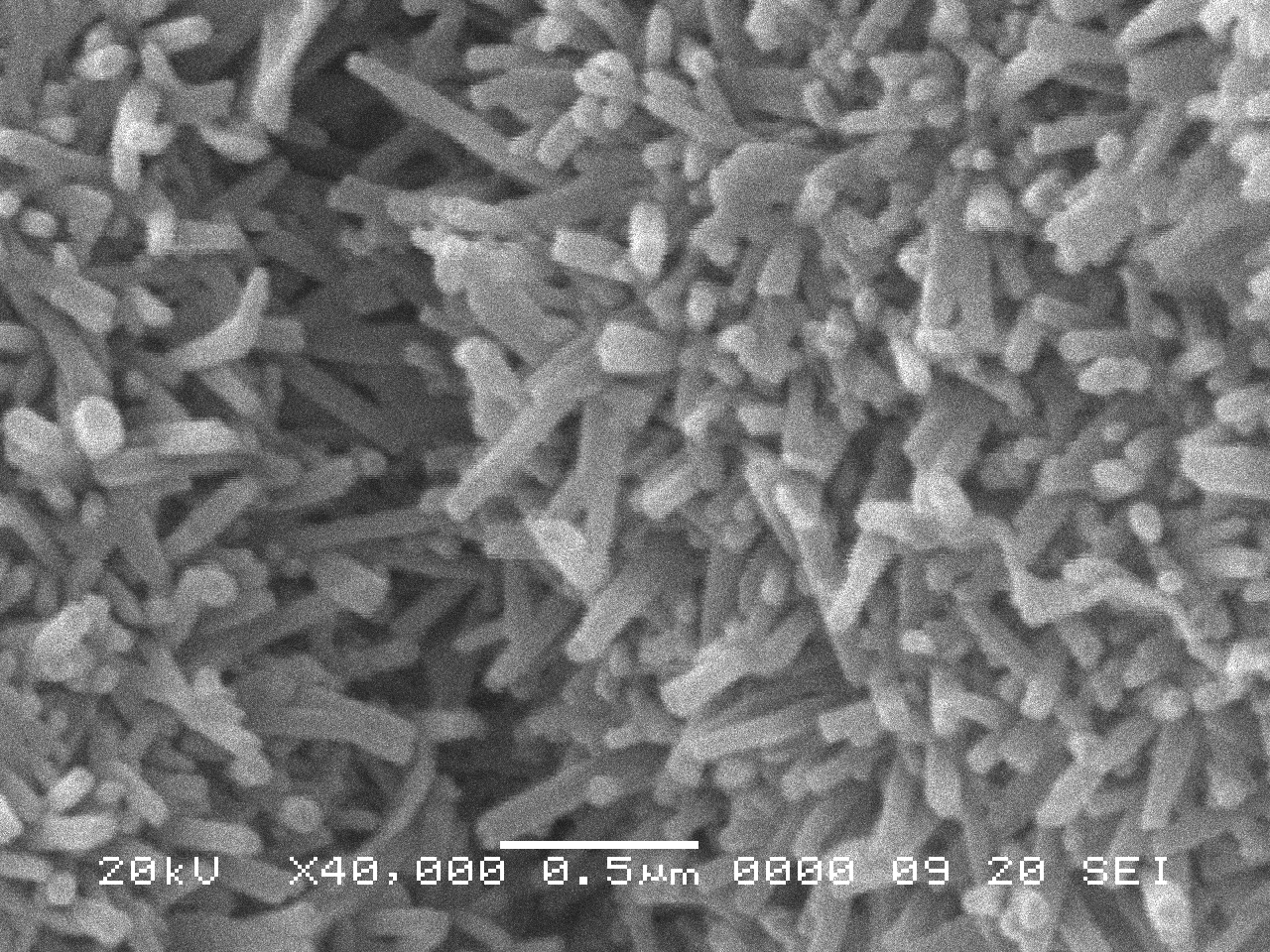 SEM picture (back-scattered electrons) of halloysite (Faculty of Engineering of Mons). Tubular facies.